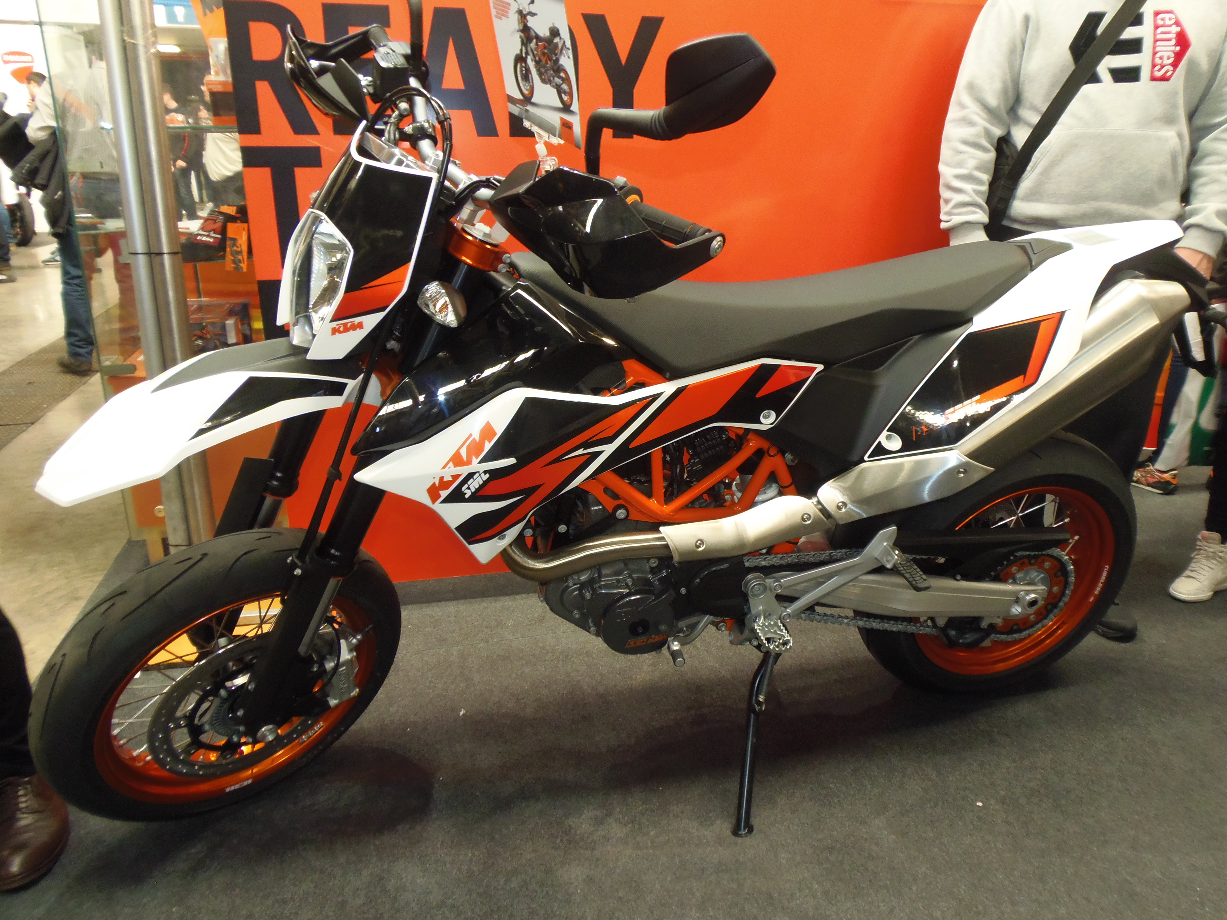 KTM 690 SMC R ABS, 2015